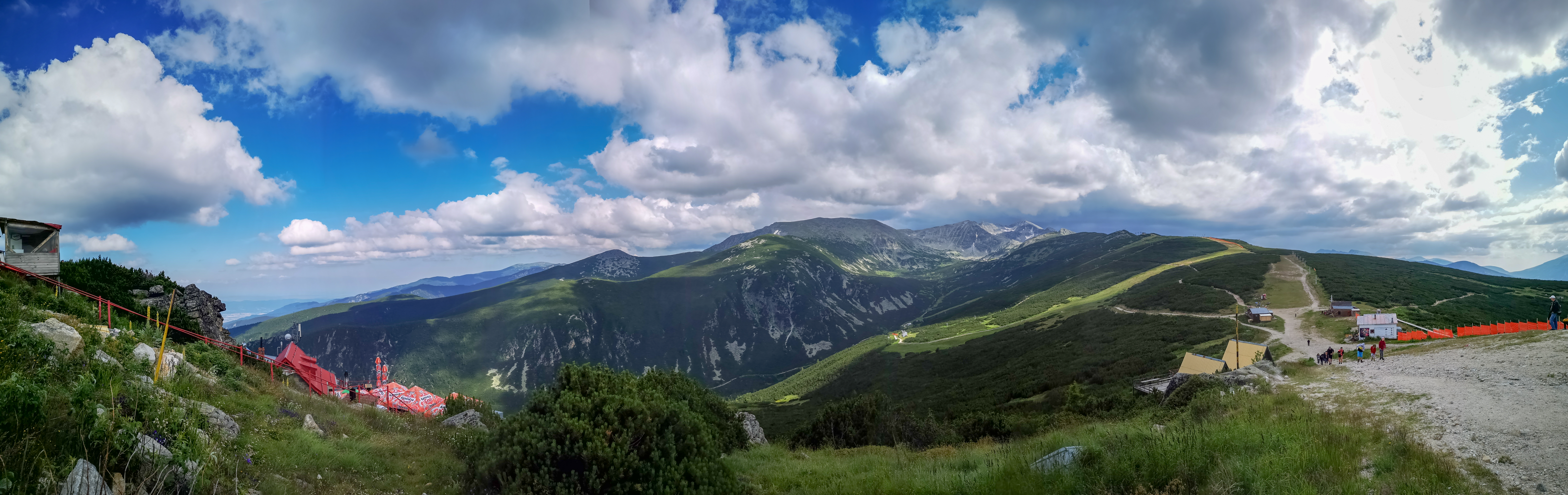 Musala (Bulgarian: Мусала); from Arabic through Ottoman Turkish: from Musalla, "near God" or "place for prayer" is the highest peak in Rila mountain, also in Bulgaria and the entire Balkan Peninsula, standing at 2,925 metres (9,596 ft). With a topographic prominence of 2,473 metres (8,114 ft), Musala is also the 8th highest peak by topographic prominence in mainland Europe. Musala is also the 4th most topographically isolated peak in Continental Europe